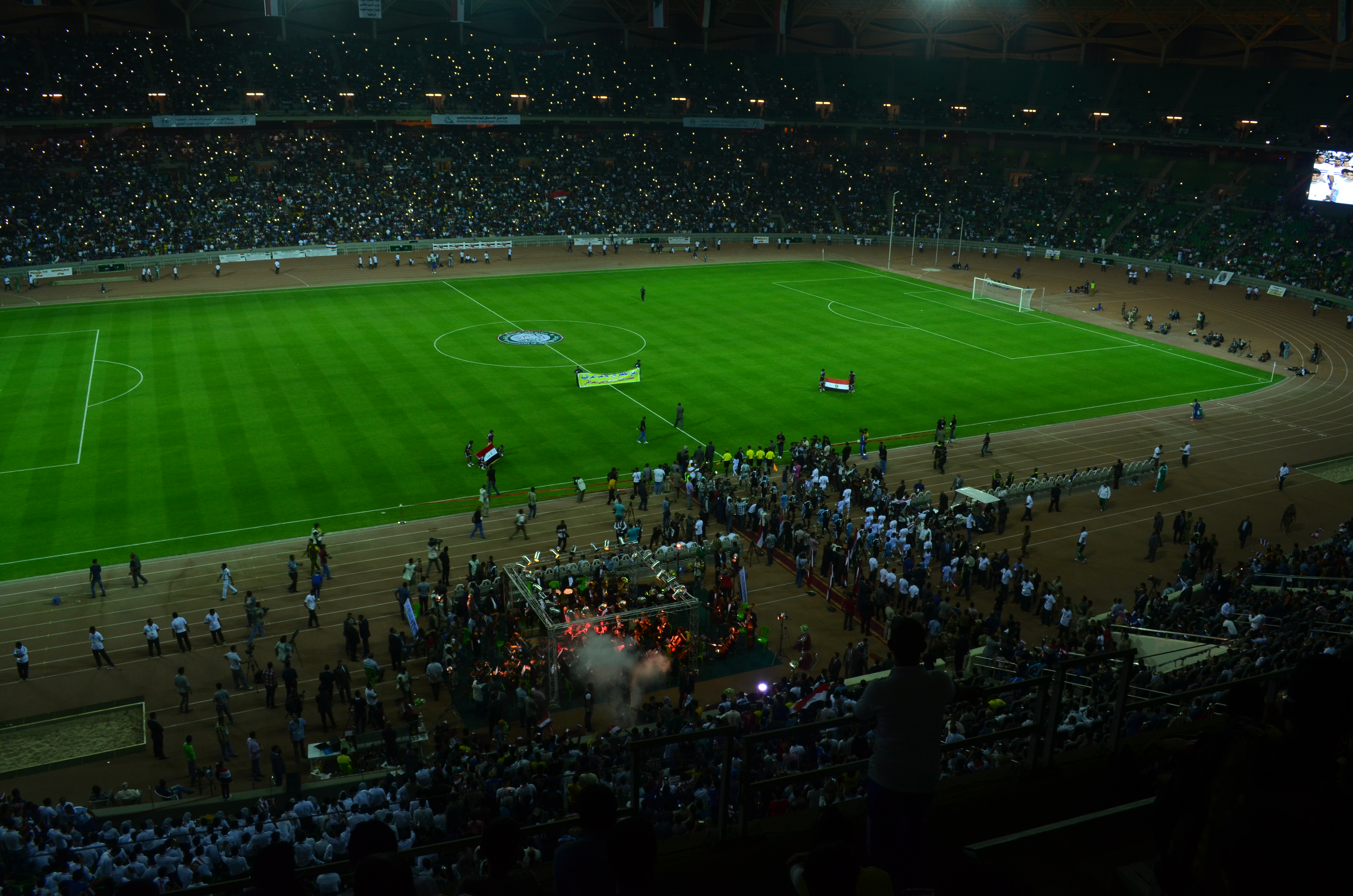 During the soft opening ceremony, flag barriers entering the pitch followed by both teams, Zamalek SC (Egypt) and Al-Zawra'a SC (Iraq) as well as a crowd of journalists and photographers.